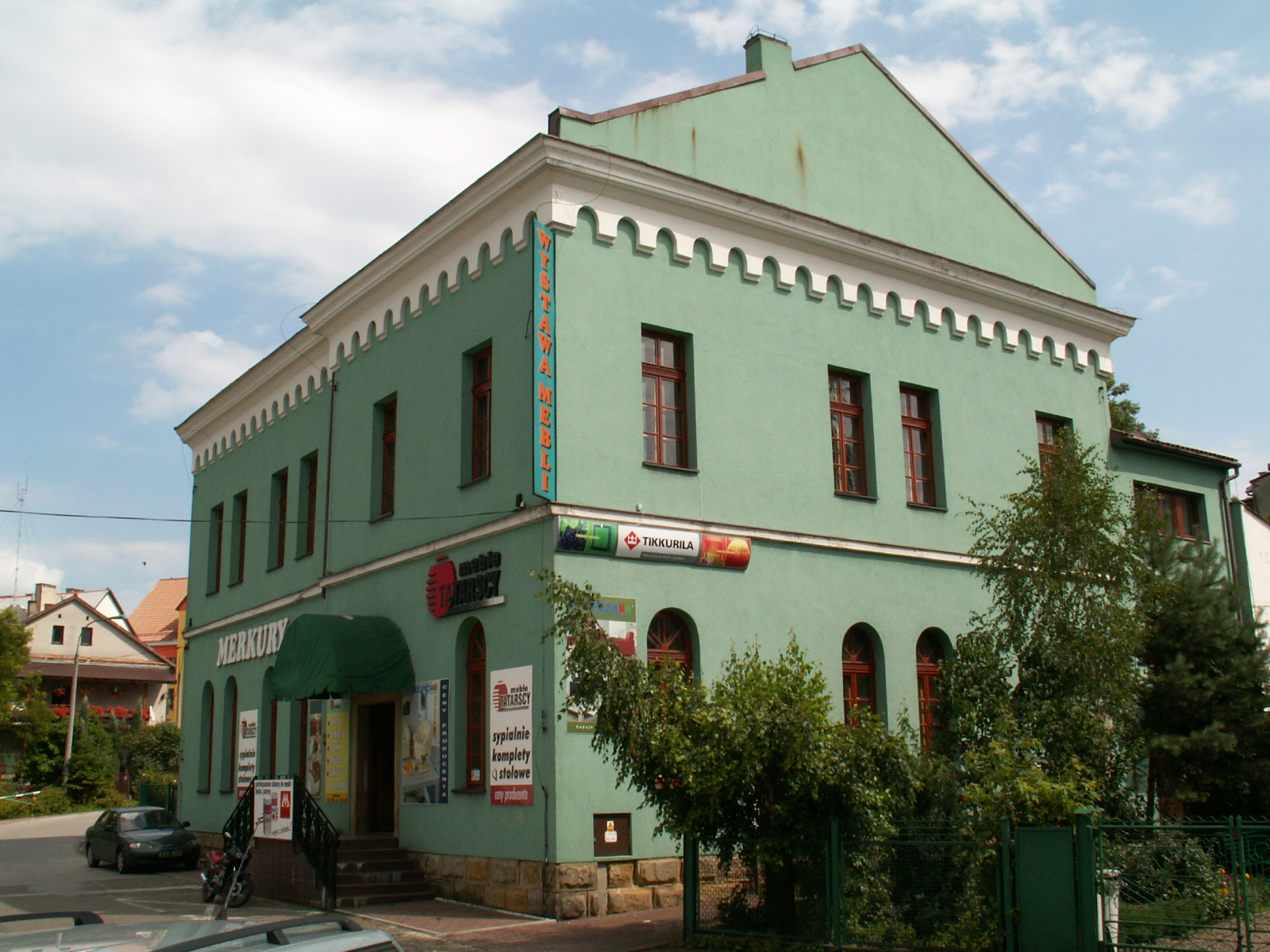 Synagogue in Kalwaria Zebrzydowska